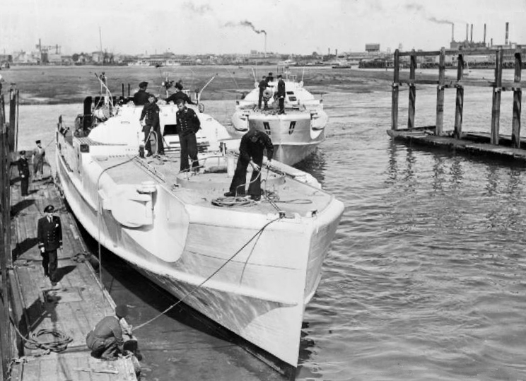 Two surrendered German Schnellboote ("E-boats") arriving at HMS Hornet, the light coastal forces base at Gosport, Hampshire (UK), to be taken over by the Royal Navy.